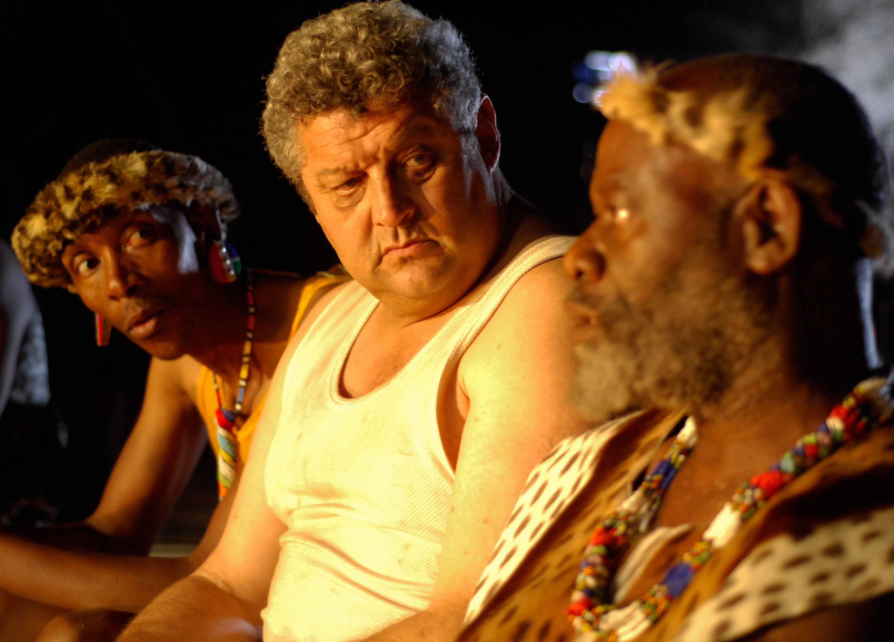 Barry Hilton